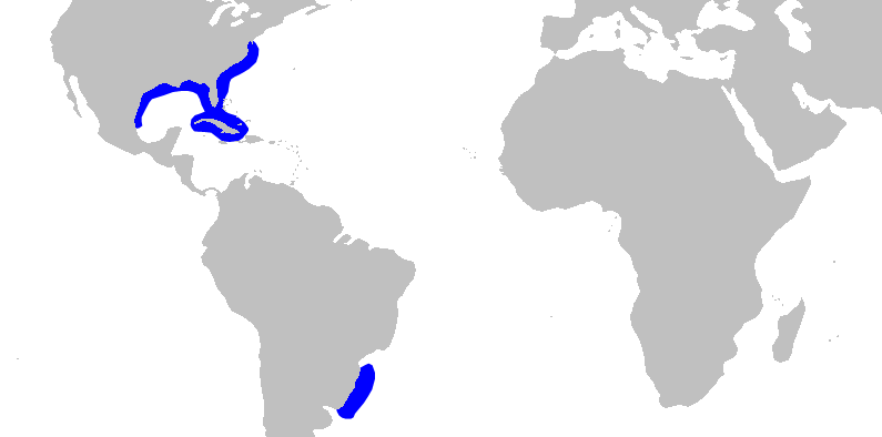 Distribution map for Carcharhinus isodon